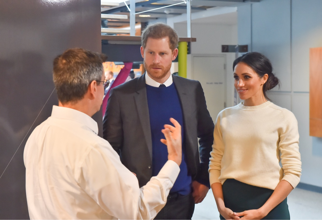 During their first visit to Northern Ireland on 23 March 2018, Prince Harry and Ms. Markle visited Catalyst Inc. An independent, non-profit organisation which works to build a community of innovators in Northern Ireland, providing the home, support and networks to nurture innovators and entrepreneurs to aim higher and succeed faster. The visit saw talented individuals from across Northern Ireland showcase their products and inventions to Prince Harry and Ms. Markle, talking them through the entrepreneurial journey - from the original idea through to the final product.